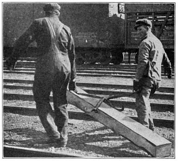 Railway workers drag a railway cross tie using tie tongs